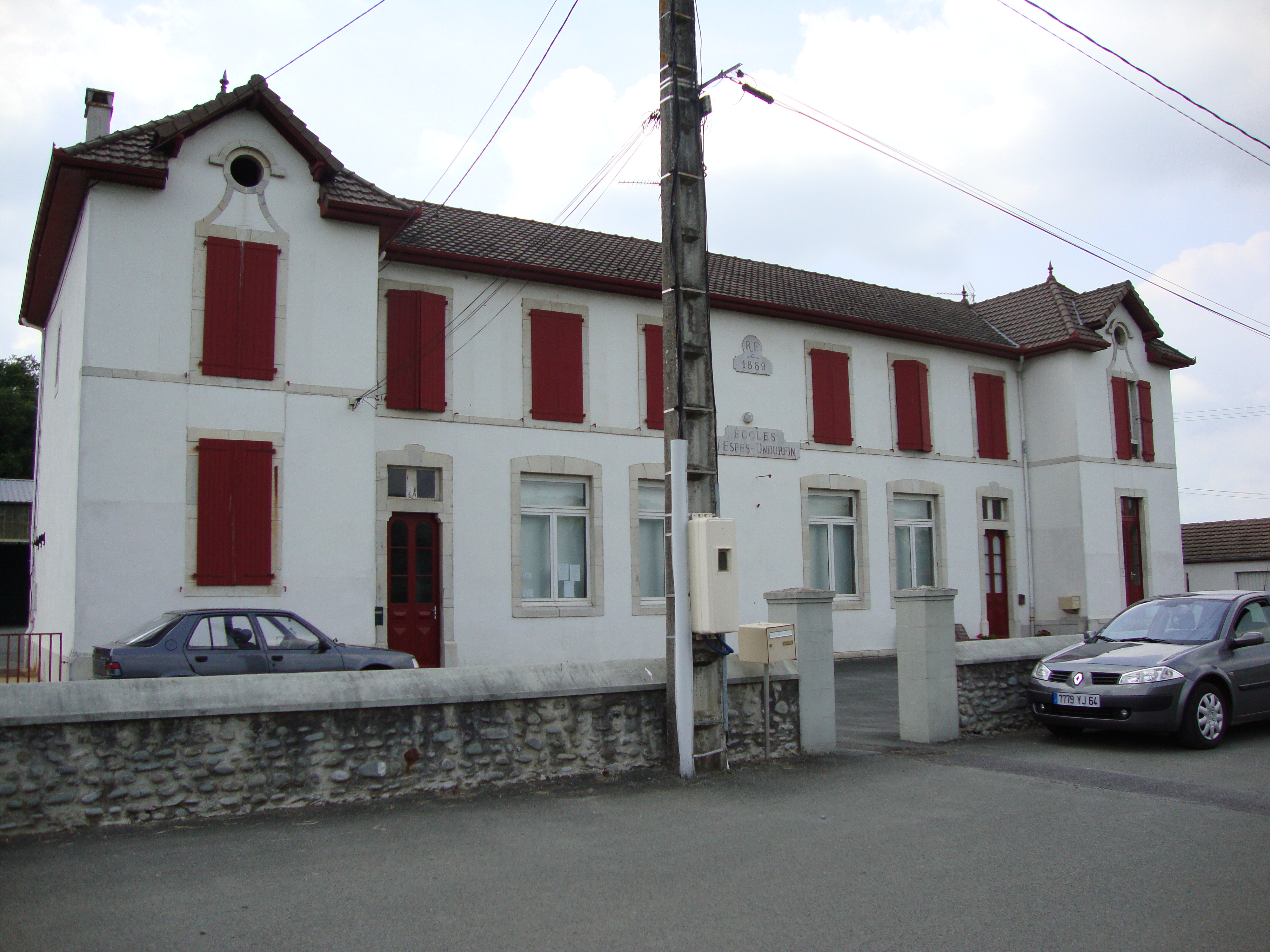 Espès-Undurein, (Pyr-Atl, Fr) school